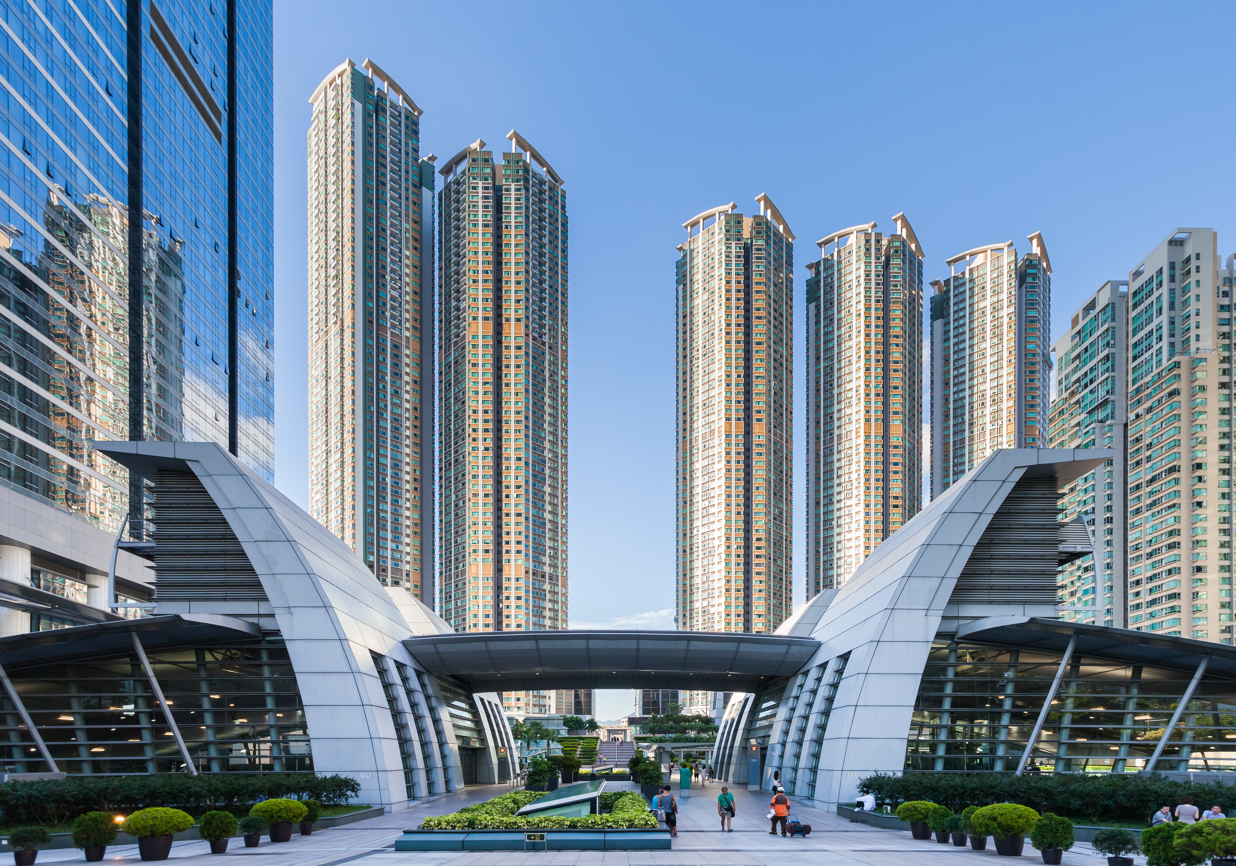 Entrance to Kowloon Station within the Union Square project, West Kowloon, Hong Kong.